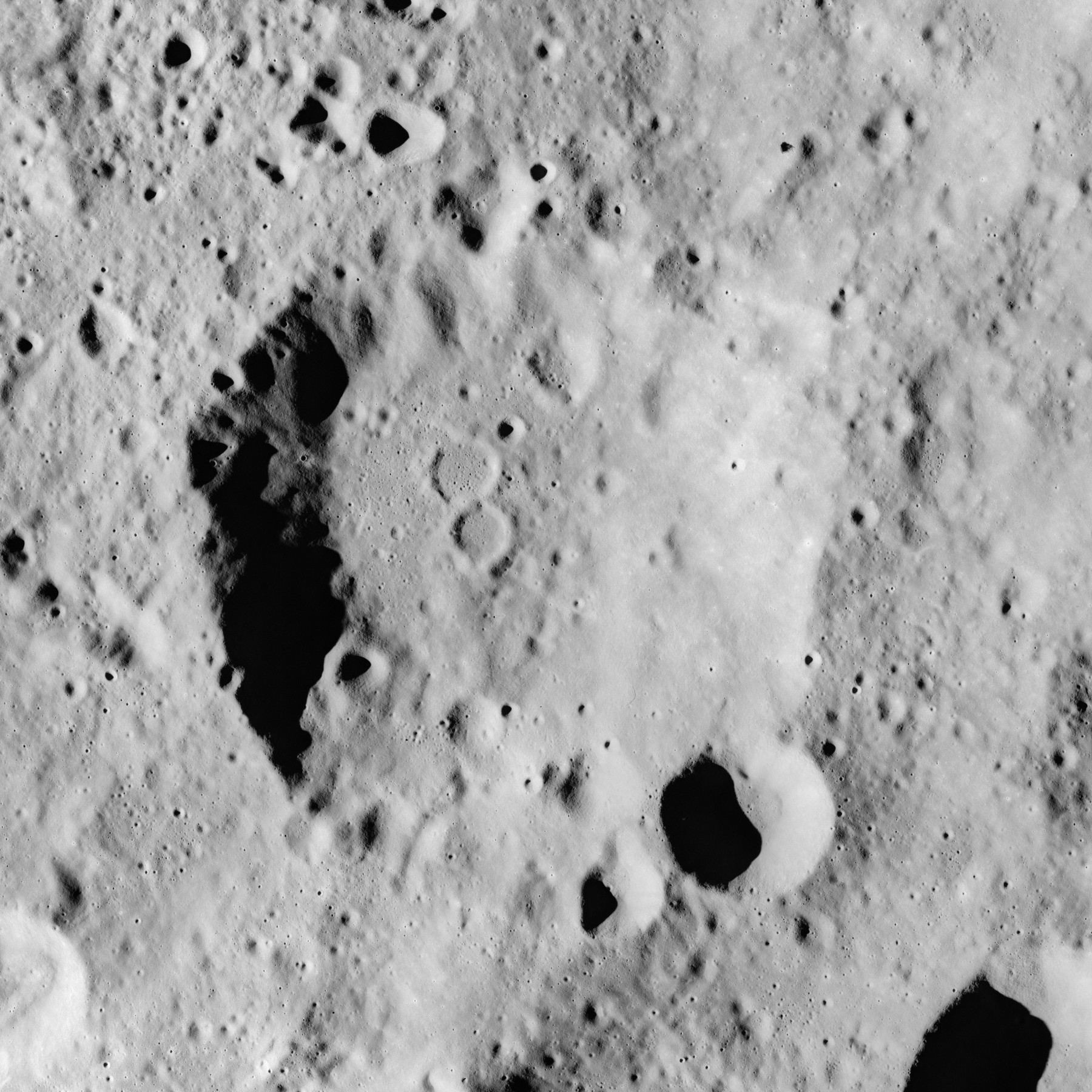 Raspletin crater, on the southeast edge of Gagarin crater, on the far side of the moon.